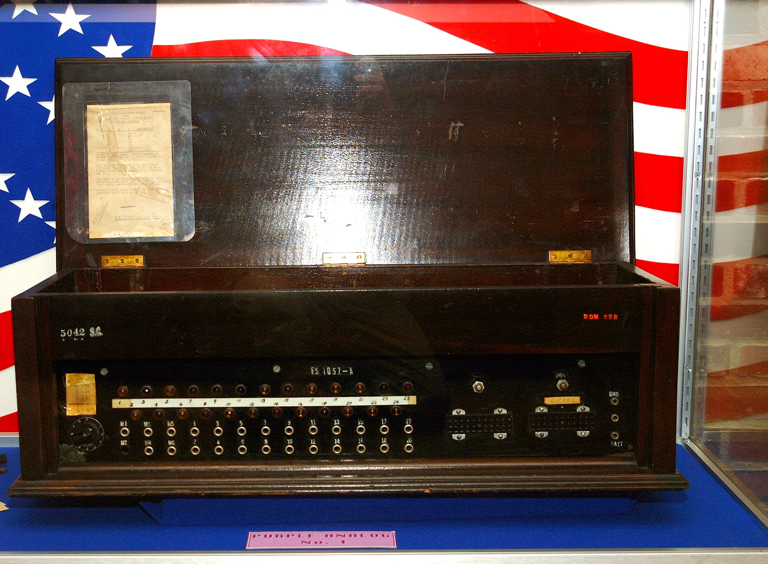 National Security Agency - Public Info - Photo Gallery - Cryptographic Machines - Purple Analog